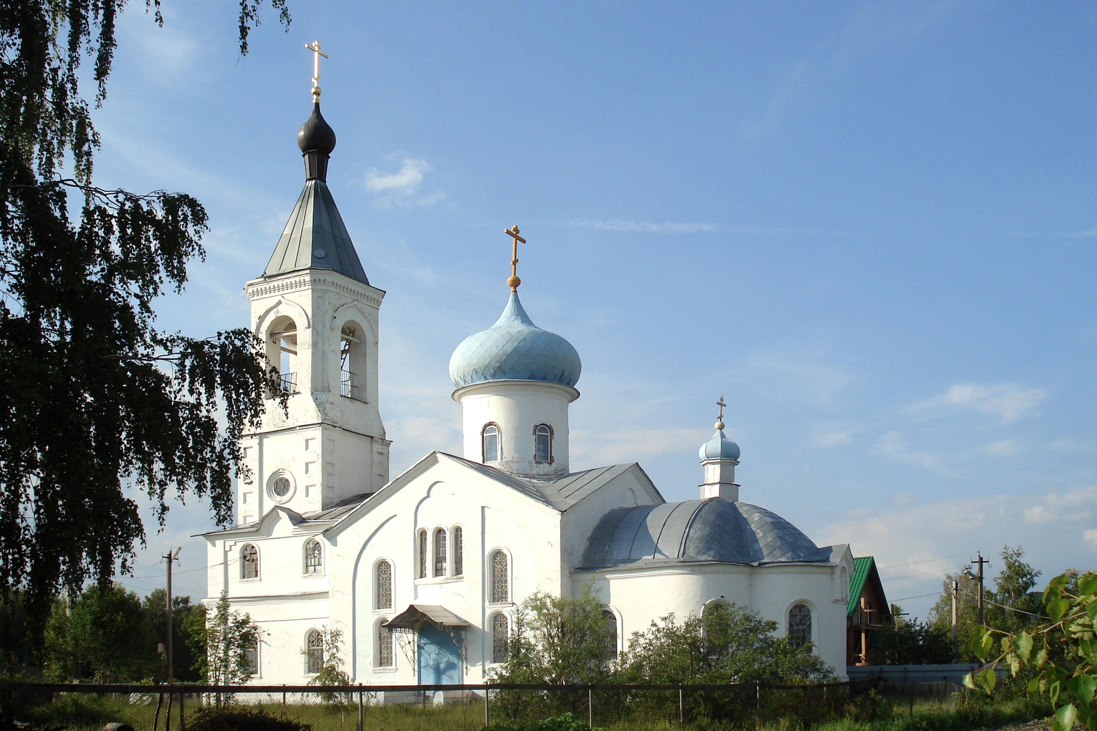 Saint Nicholas`s Old_Believers Church in Ustyanovo (Guslitsa), Moscow region. Architect Martyanov N. G. 1914.